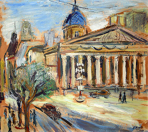 Edgar Koetz: Catedral de Buenos Aires, óleo sobre tela, 1950, acervo do Museu Museu de Arte do Rio Grande do Sul Ado Malagoli, Porto Alegre, Brasil.